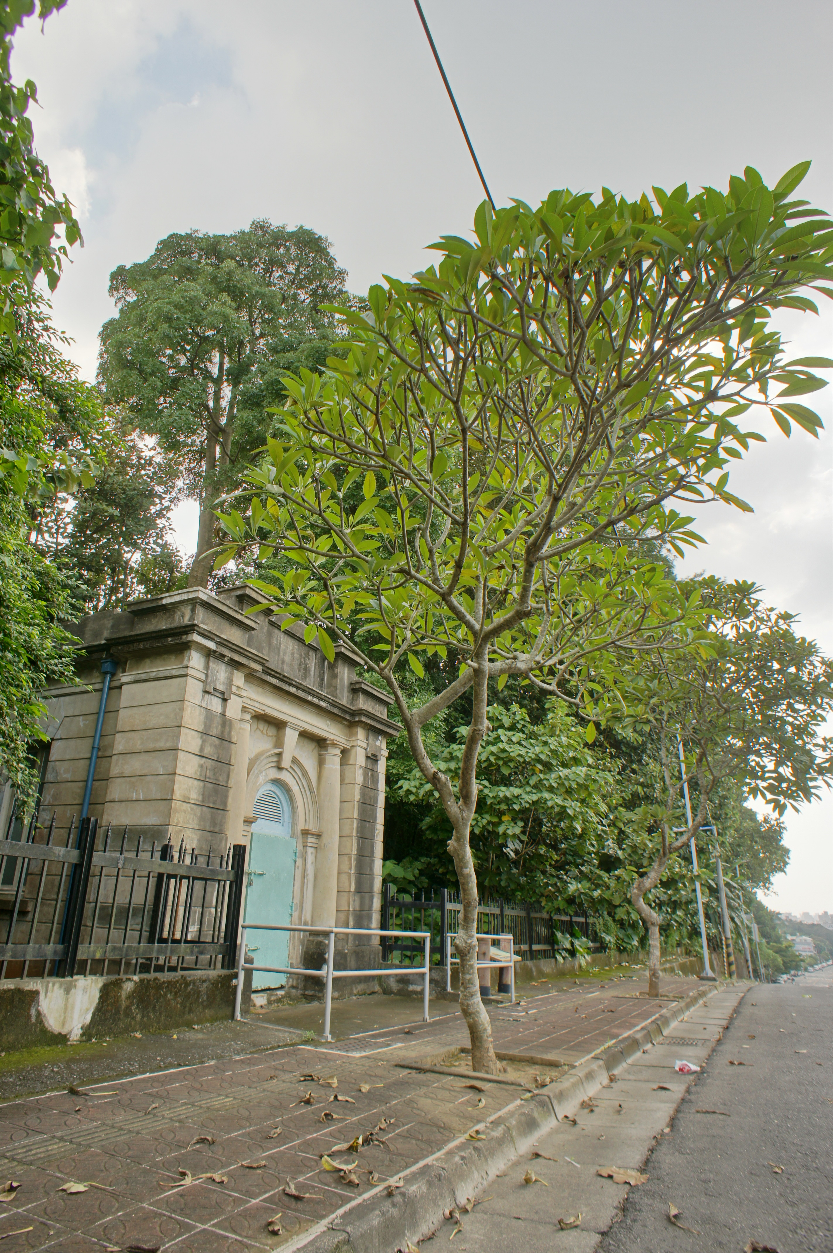 The Water Meter Room, Chiayi, Taiwan.